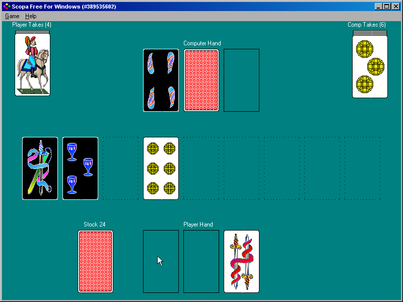 playing a trick in Scopa card game